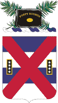 013th Infantry Regiment Coat of Arms